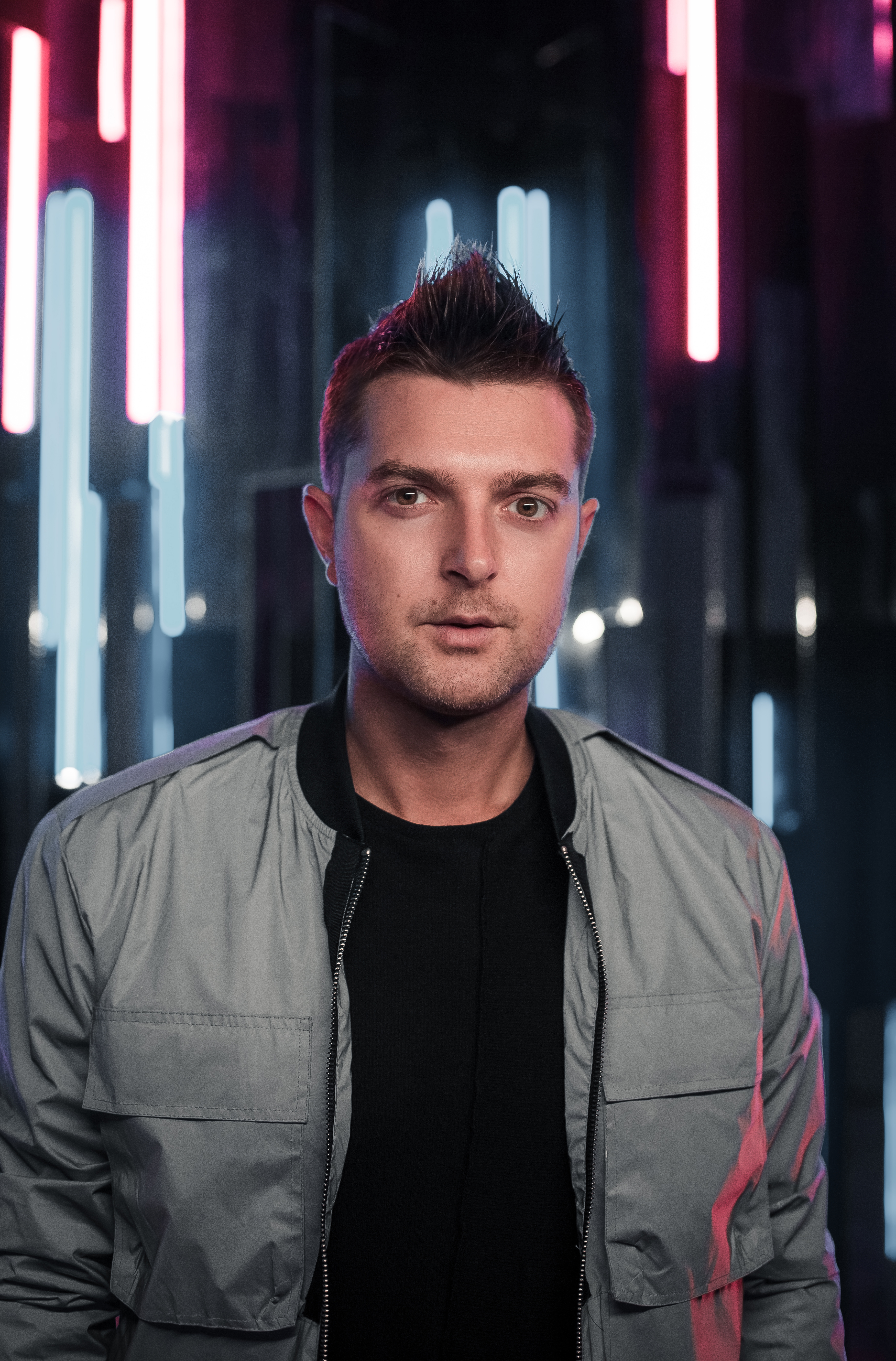 Fenix (Alexander Mamonov) - Electronic Dance Music (EDM) DJ, a multi-instrumentalist and producer